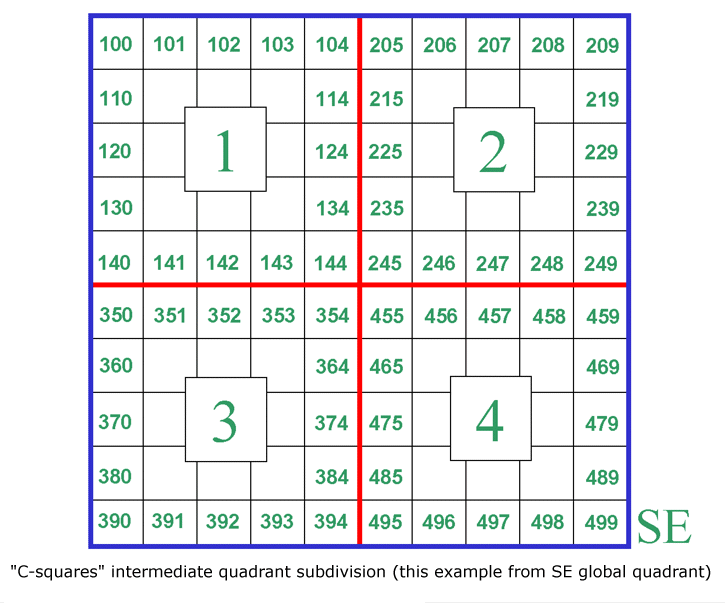 C-squares geocode principle - intermediate quadrant notation example - south-east global quadrant - refer Rees, 2003 (Oceanography. 16 (1): 11–19) for additional detail